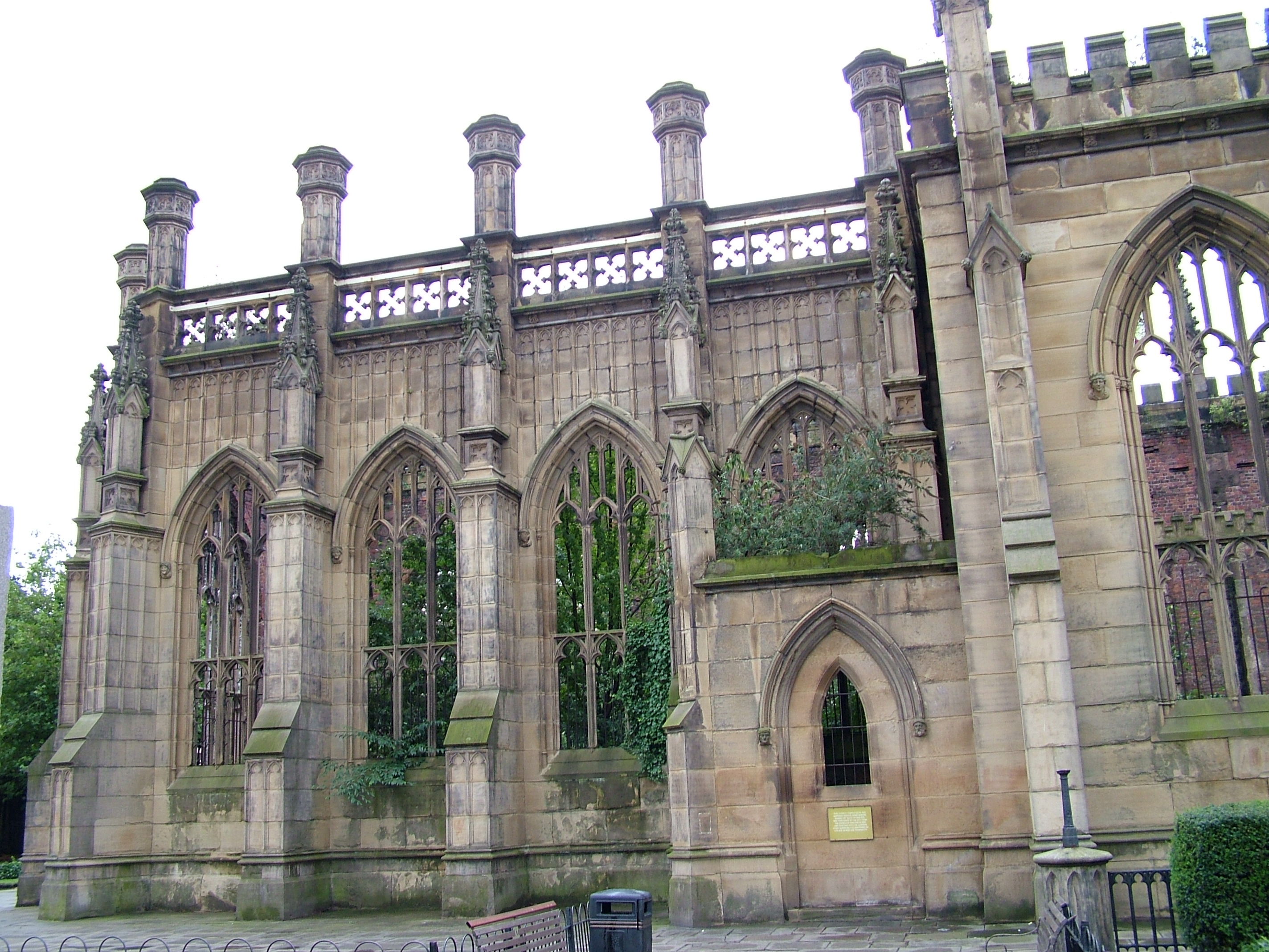 Church of Saint Luke, Liverpool. Taken by Chris Howells, September 2005.